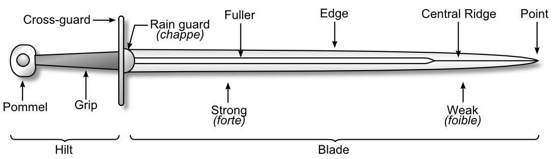 Note: See the version numbered to create or enhance one translation.